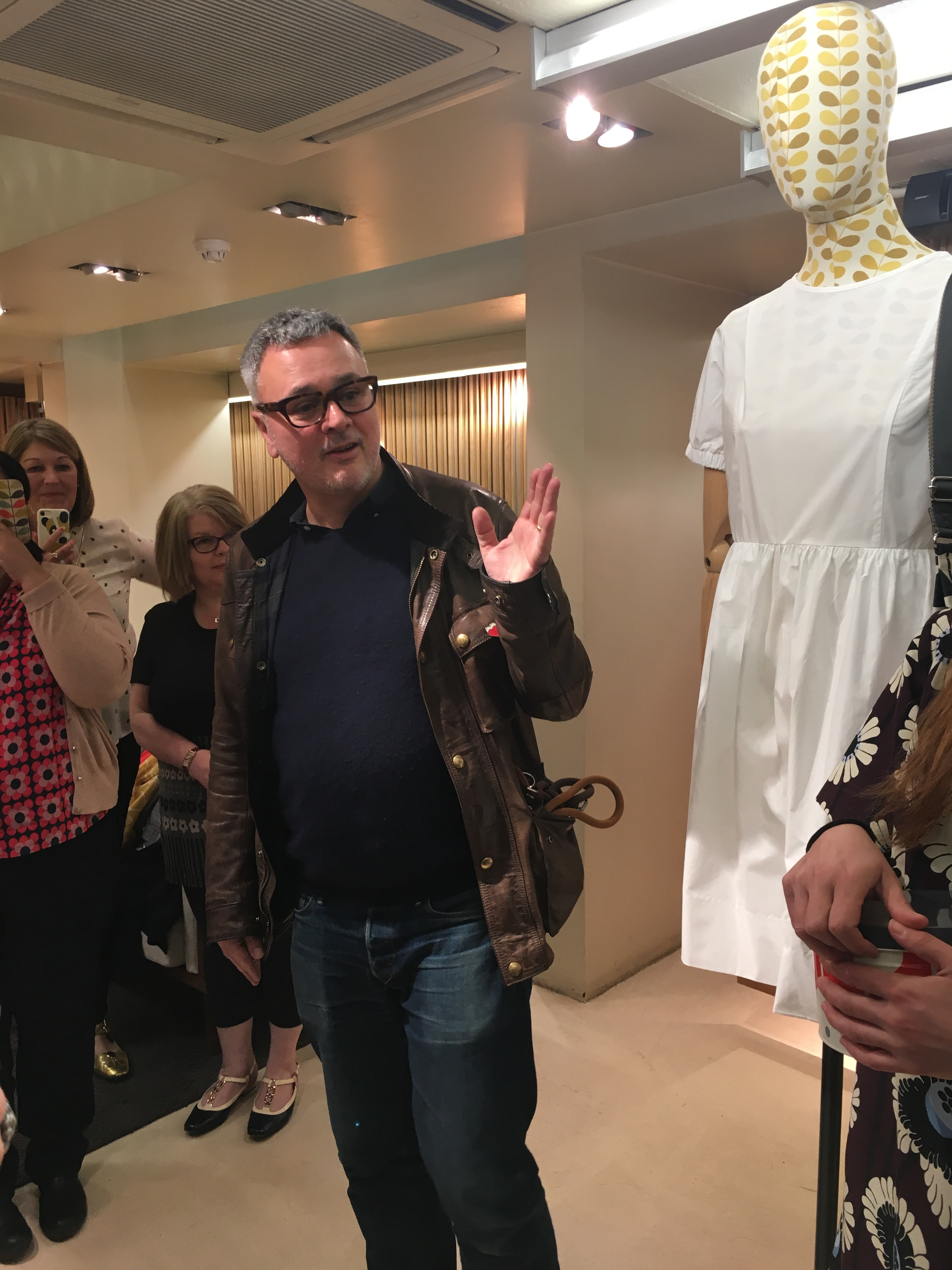 Dermott Rowan, husband of Irish designer Orla Kiely and managing director of Kiely Rowan PLC. Photographed at the Orla Kiely store in London.